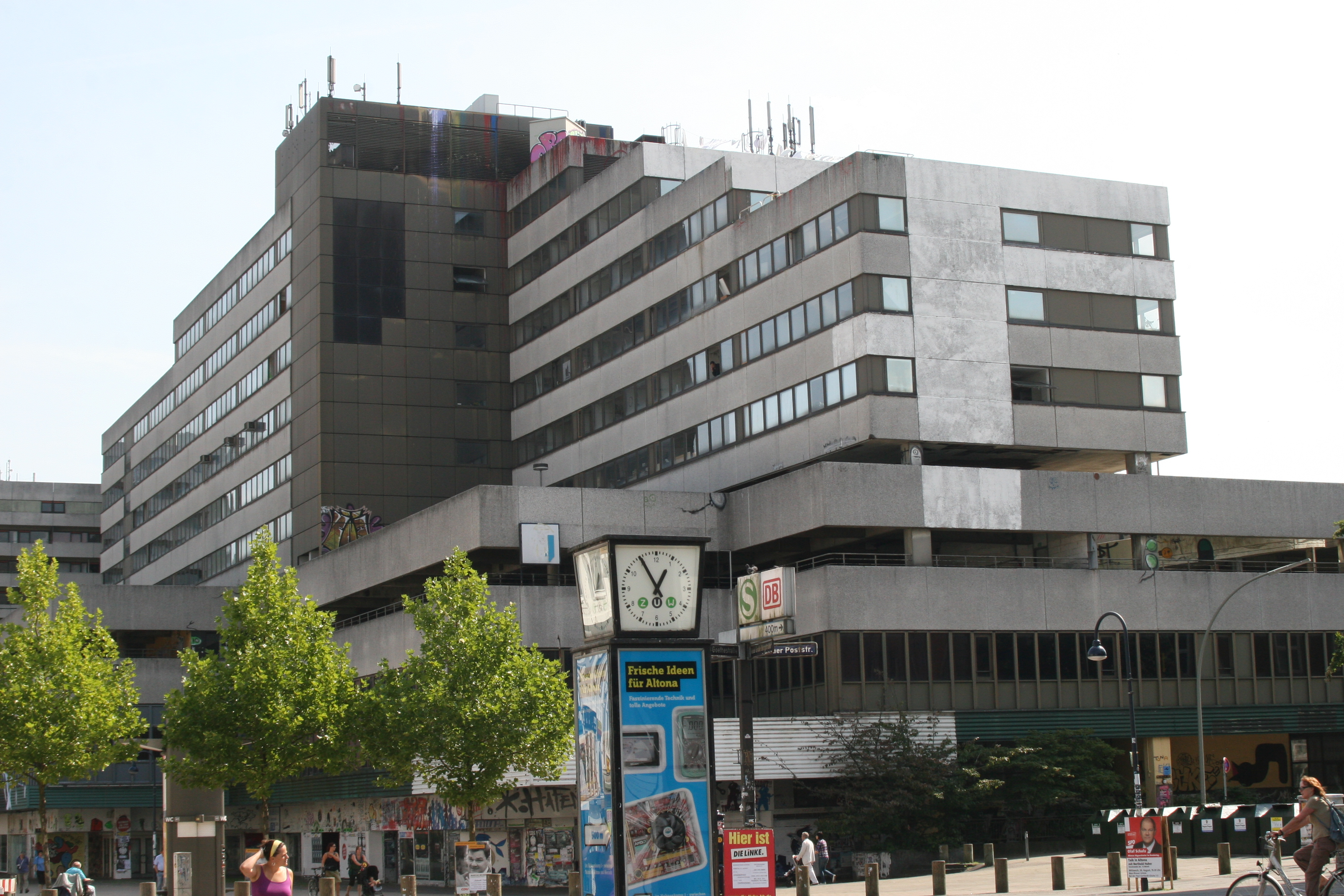 Building called "Frappant" at Grosse Bergstraße 172 in Altona, Hamburg, Germany